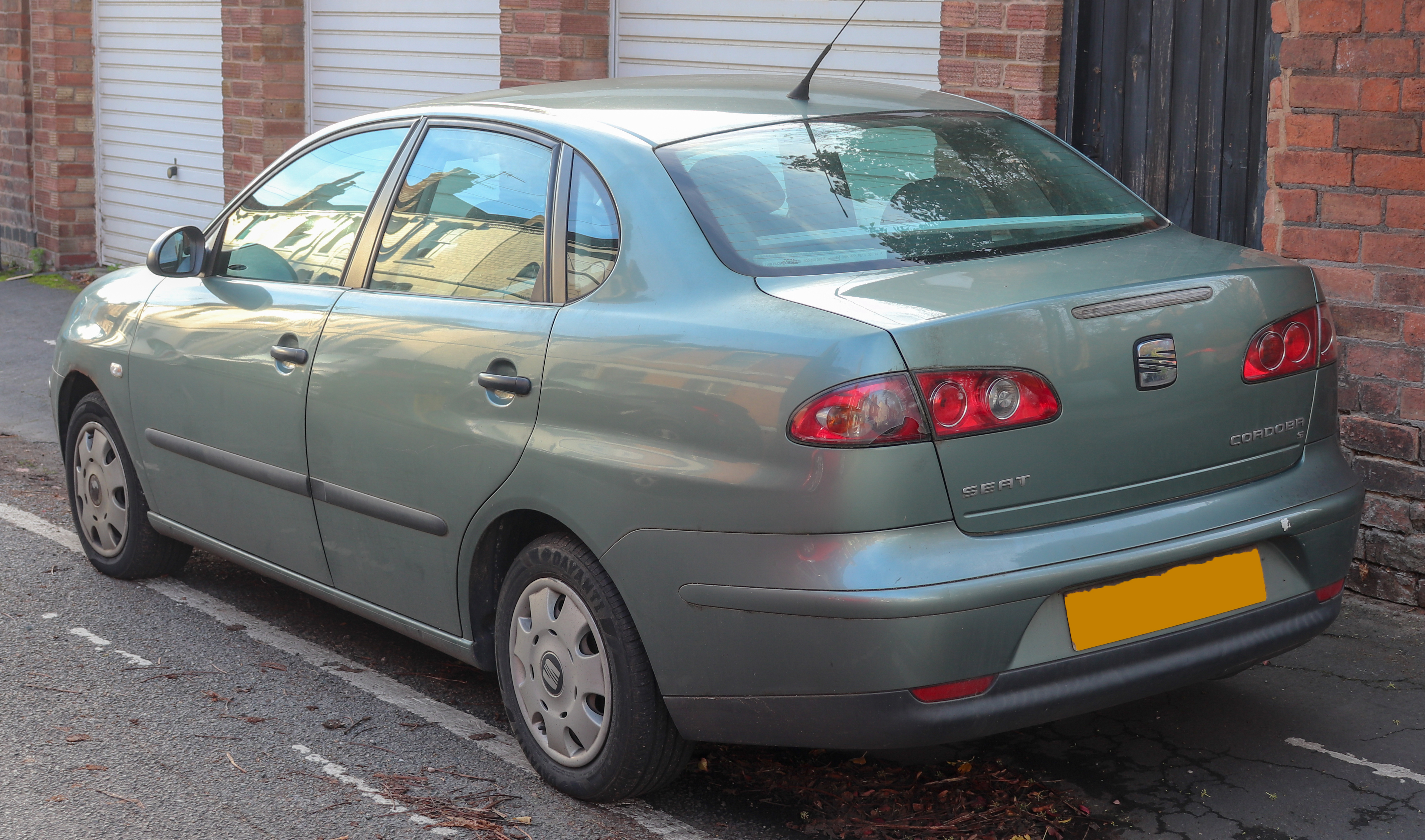 2003 SEAT Cordoba S 1.4 Rear Taken in Leamington Spa